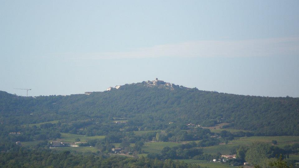 Gassin from Quartier Bertaud